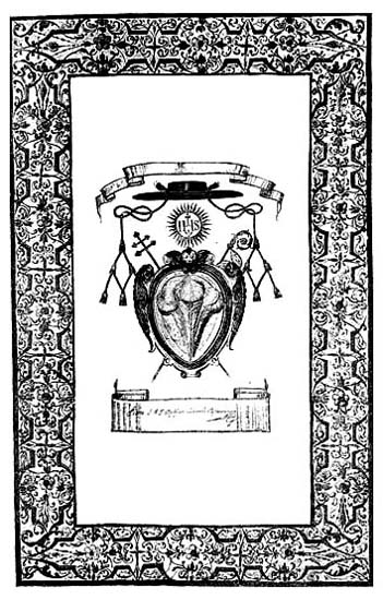 Coats of arm and signature of Péter Pázmány